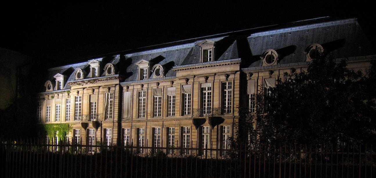 View of the Hôtel d'Aumont in Paris, former home of the Dukes of Aumont